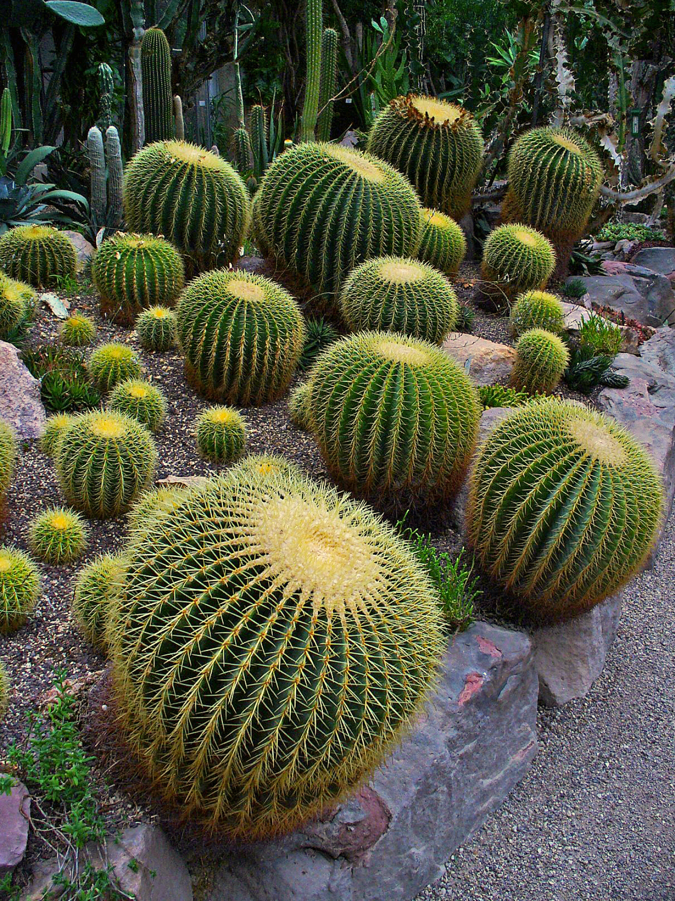 Echinocactus grusonii, Cactaceae, Golden Barrel Cactus, Golden Ball, Mother-in-Law's Cushion, habitus; Botanical Garden Karlsruhe, Germany.